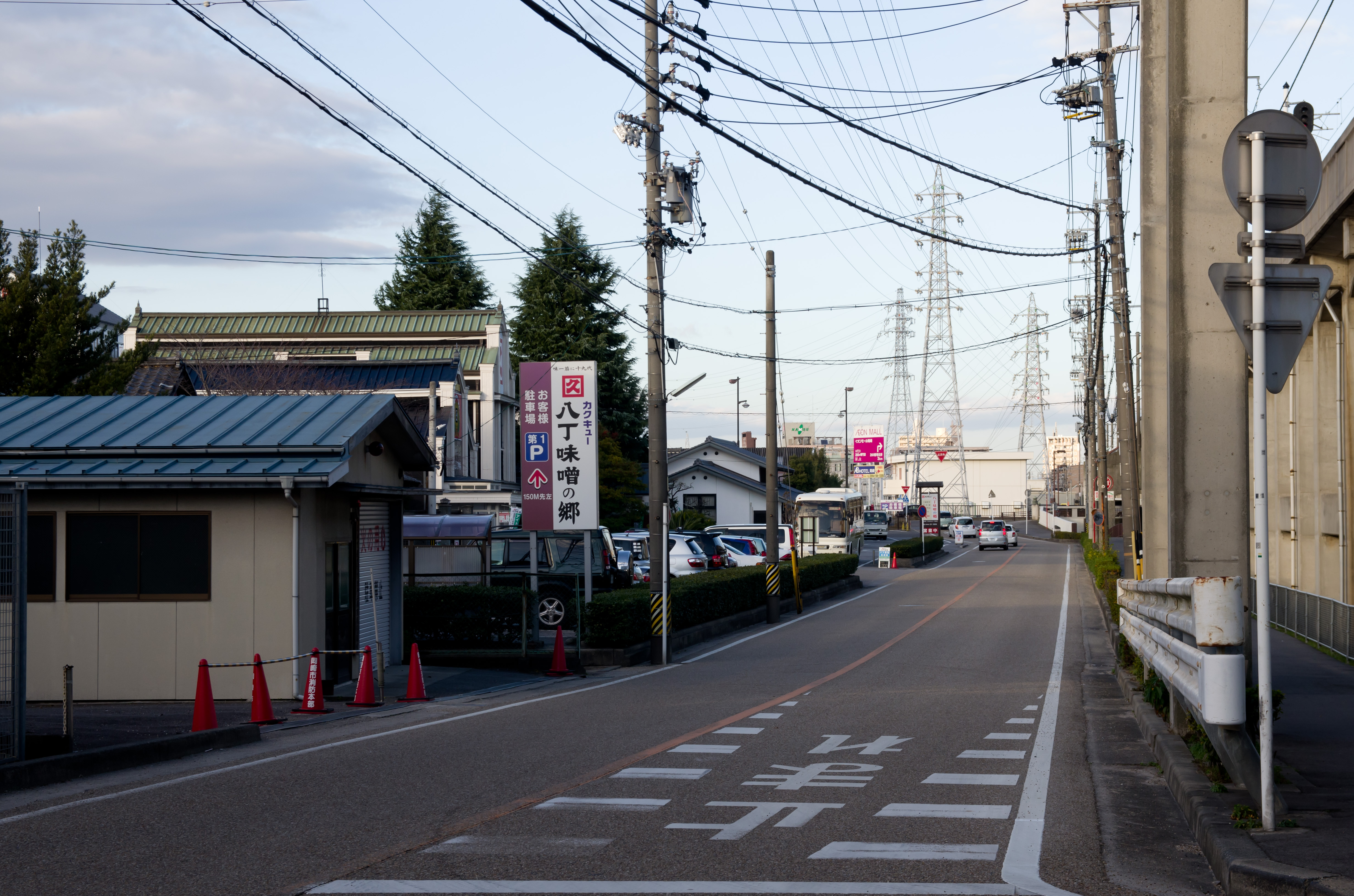 Halfway point of Kirari-dori Ave. in Okazaki, Aichi, Japan.